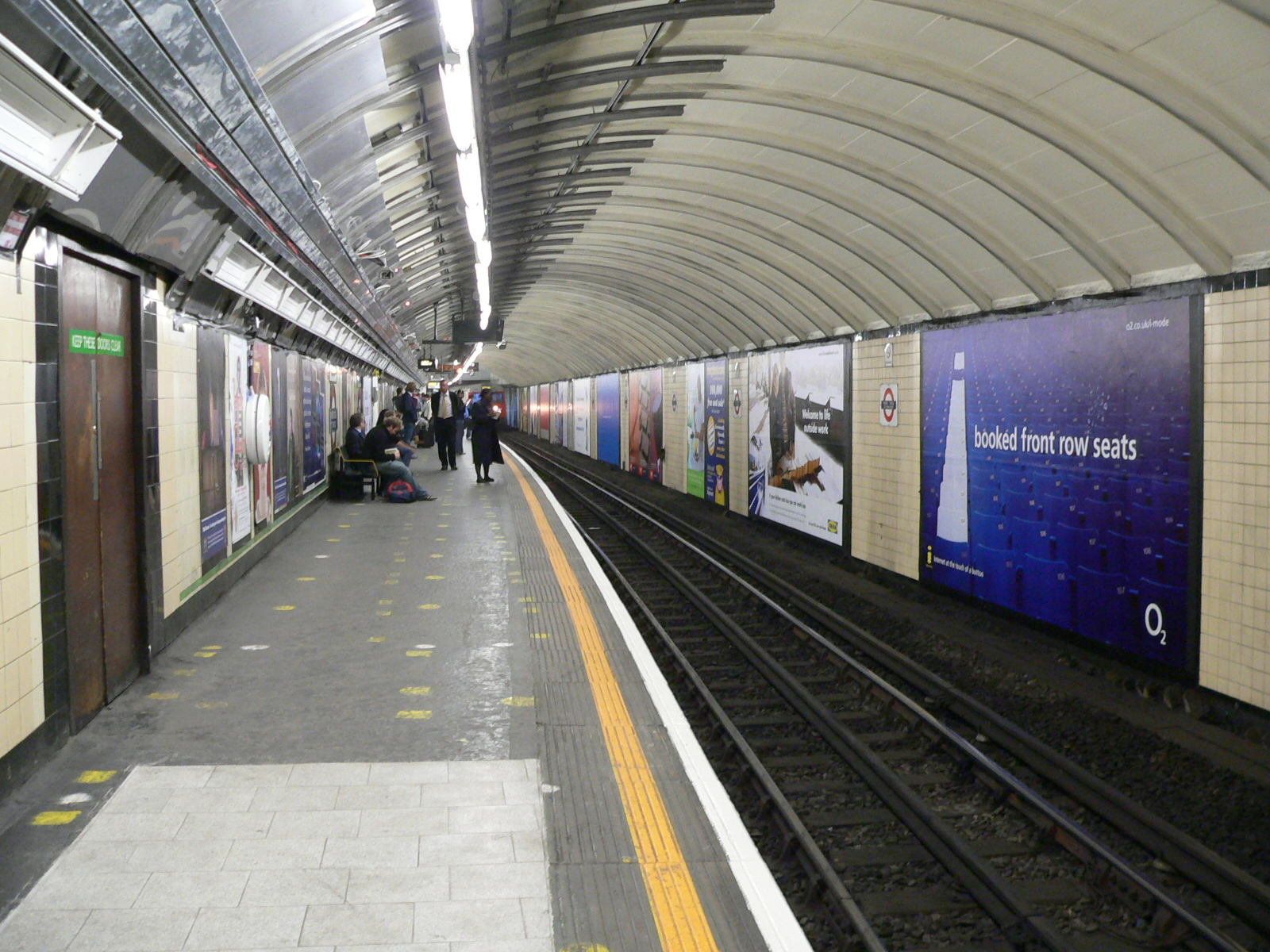 The westbound platform for sub-surface line services at London Underground's King's Cross St Pancras station. Circle, Hammersmith & City and Metropolitan Line trains call here. Picadilly, Northern and Victoria line trains all have dedicated platforms at a deeper level.